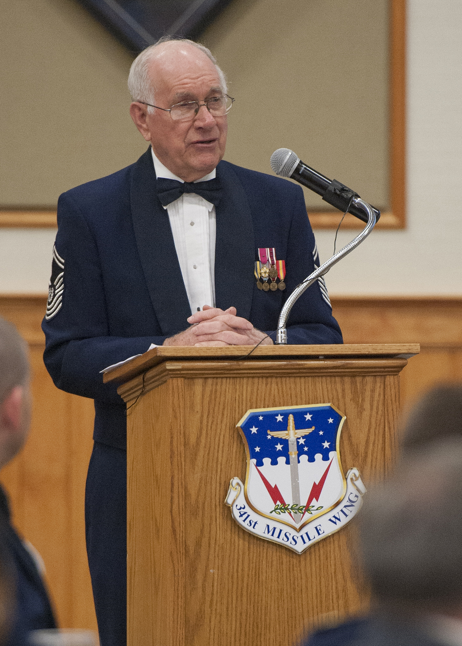 Retired Chief Master Sgt. of the Air Force, Sam Parish, speaks to members of Team Malmstrom during the 2012 Annual Awards Banquet at the Grizzly Bend on Feb. 22. Parish met with Airmen during his visit and spoke at an enlisted all-call, a John Maxwell Leadership 360 class and an Airman Leadership School graduation.